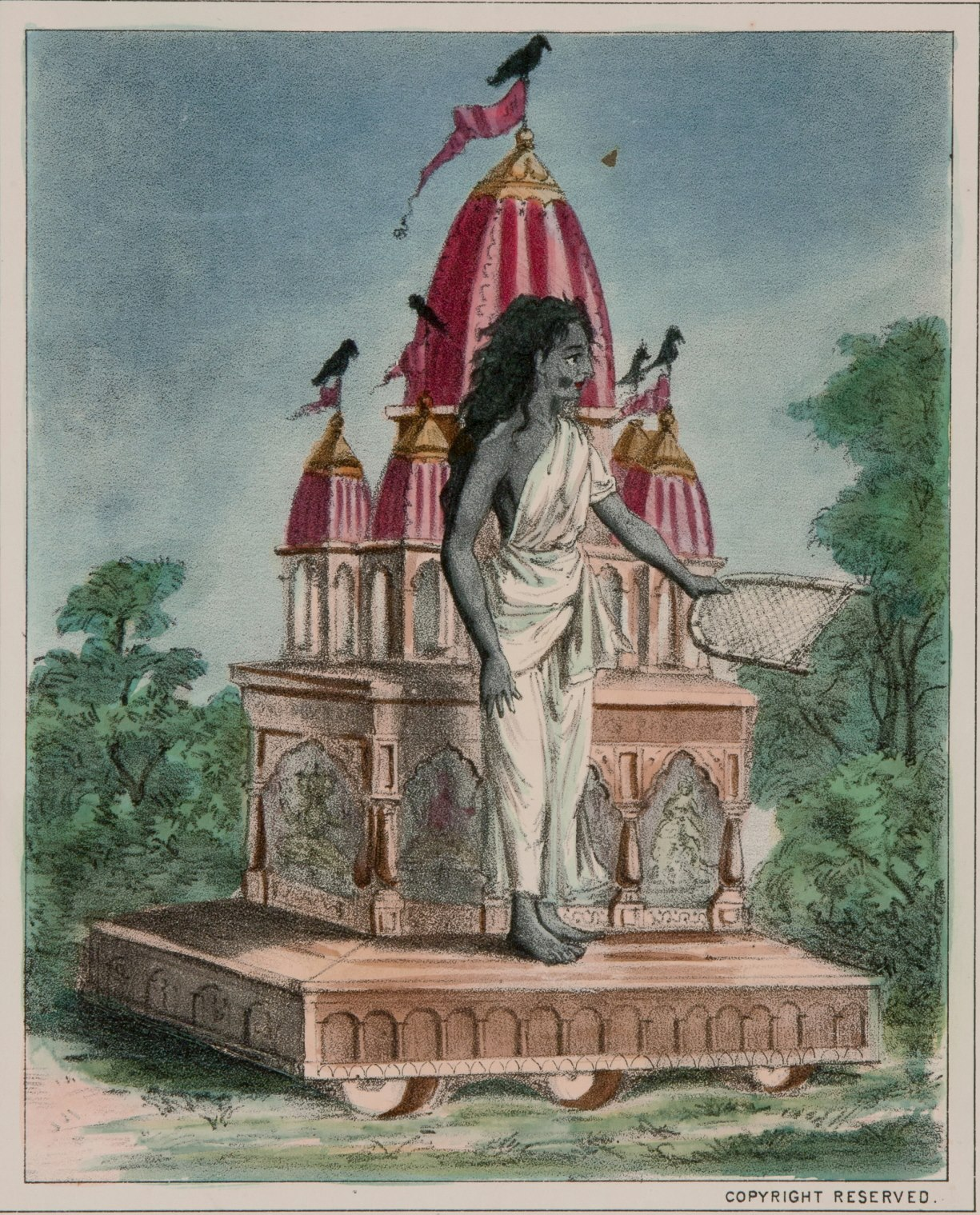 dhumavati